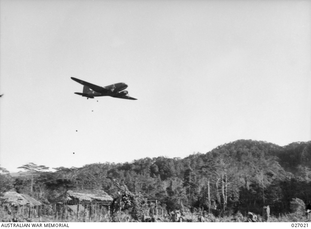 Transport plane of the United States Air Force dropping food supplies on a cleared space at Nauro village during the advance of the 25th Australian Infantry Brigade over the Owen Stanley Range.